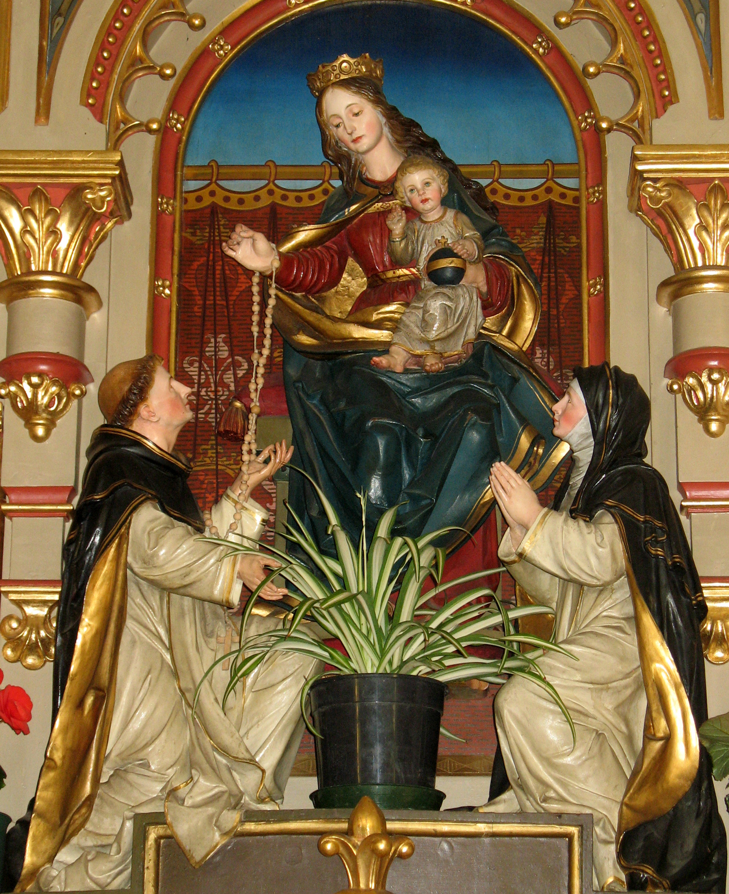 Rosary Madonna by the Tyrolean sculptor Franz Tavella 1905 in Atzwang-Ritten South Tyrol